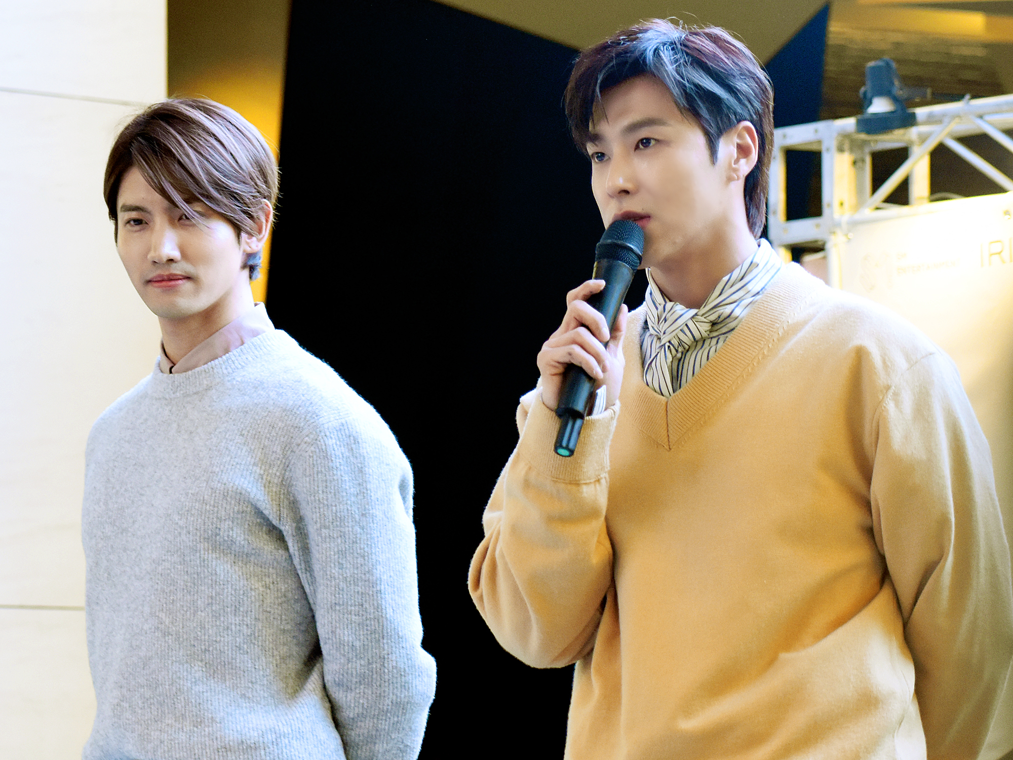 TVXQ at a fansign event at IFC Mall in Yeouido on January 13, 2019.